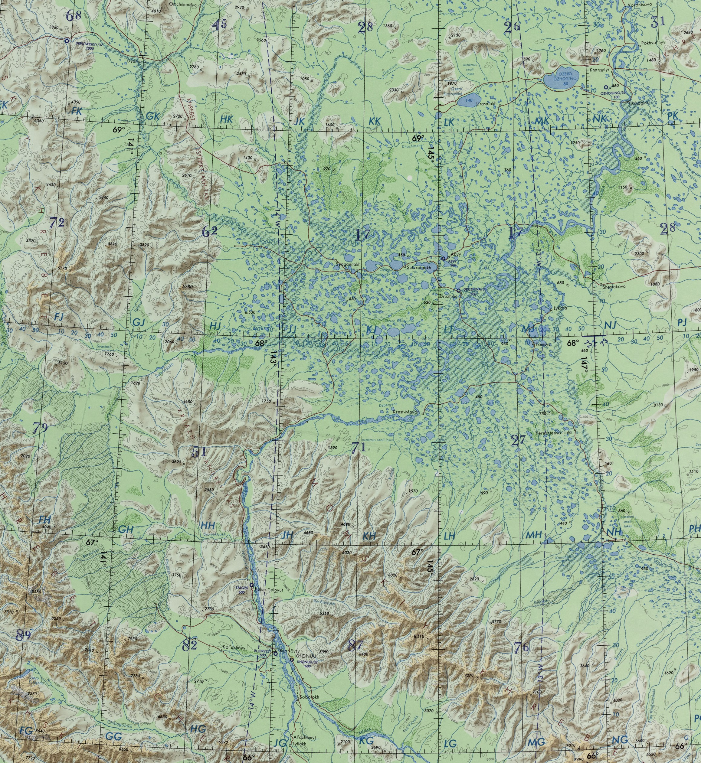 Map section showing the Moma Range below and the Aby Lowland on the upper right half. Sakha (Yakutia) Russia.